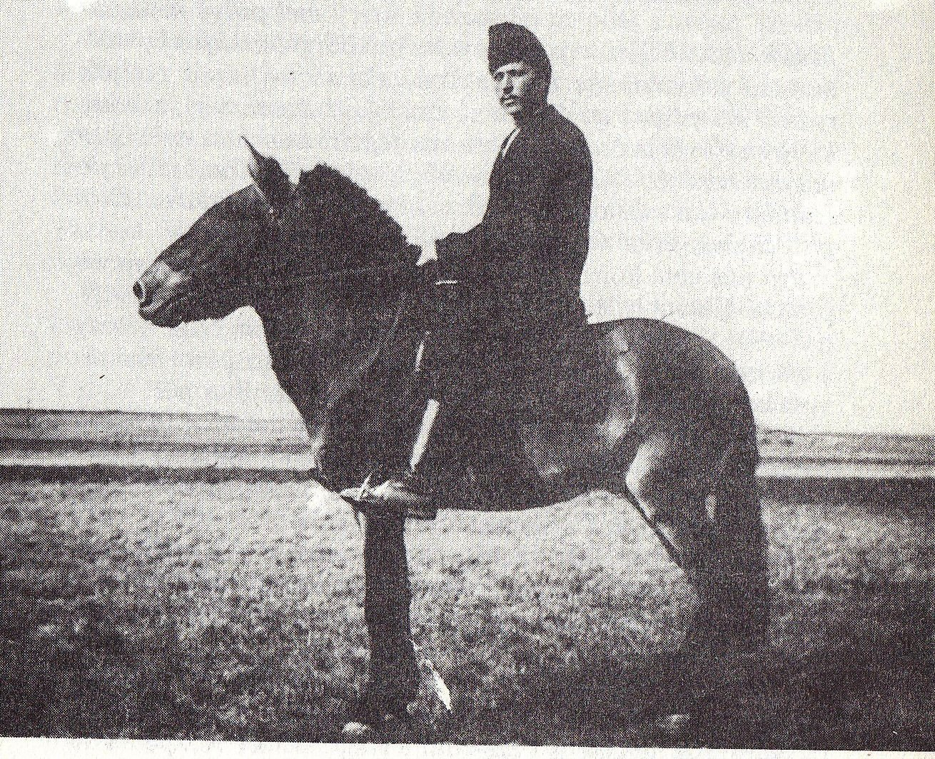 "Vaska", the first Przewalski's horse from the wild to have reached Europe and the only of such who could be used for riding; photo from Askania Nova. Caught in 1899, he travelled to Europe via Kobdo (Mongolia). In 1900 he reached Askania Nova, a year later he was given to the Russian tsar and placed in Tsarskoye Selo, and after a few years given back to baron F. E. Falz-Fein to Askania Nova.